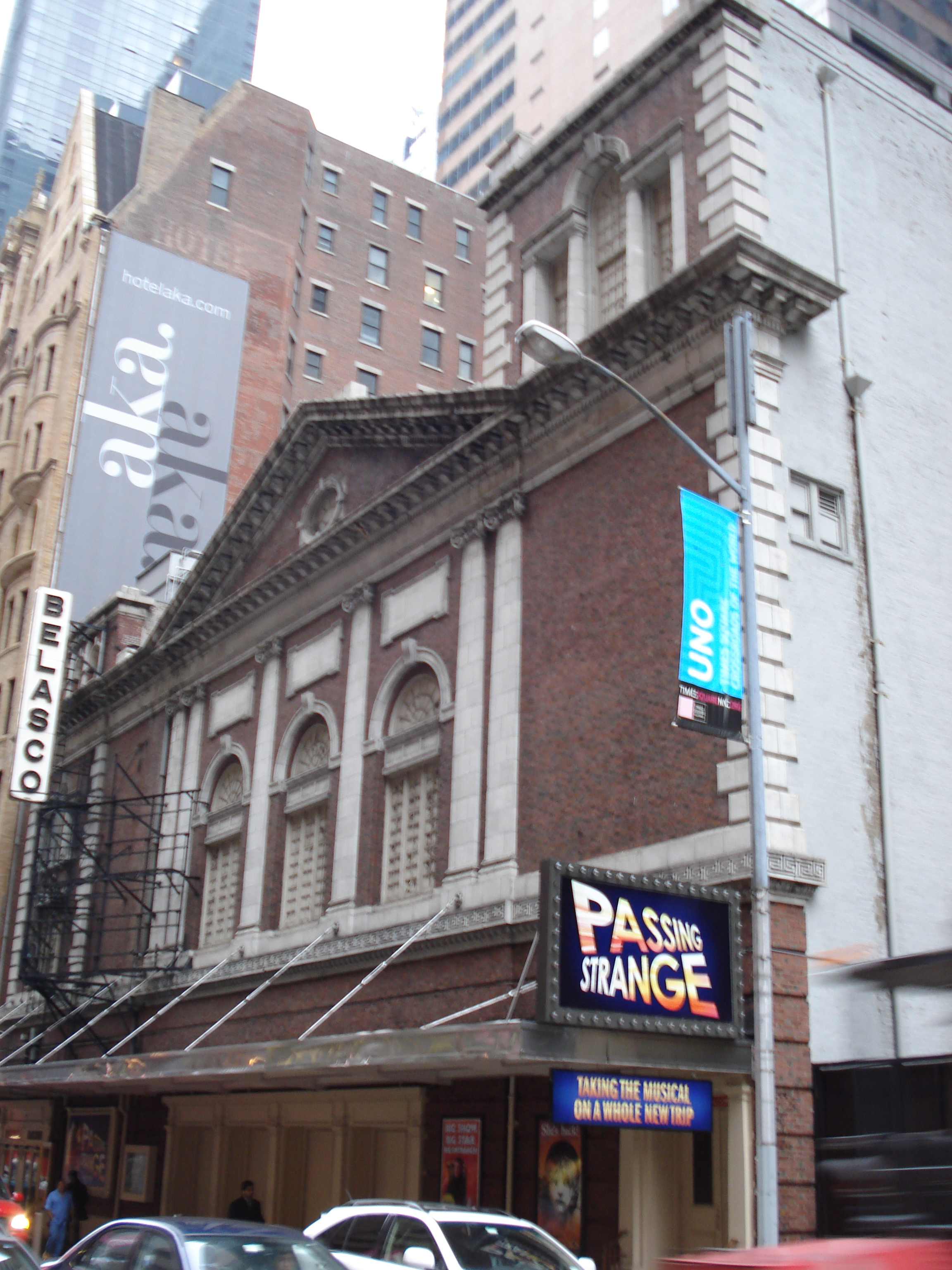 Belasco Theatre, NYC